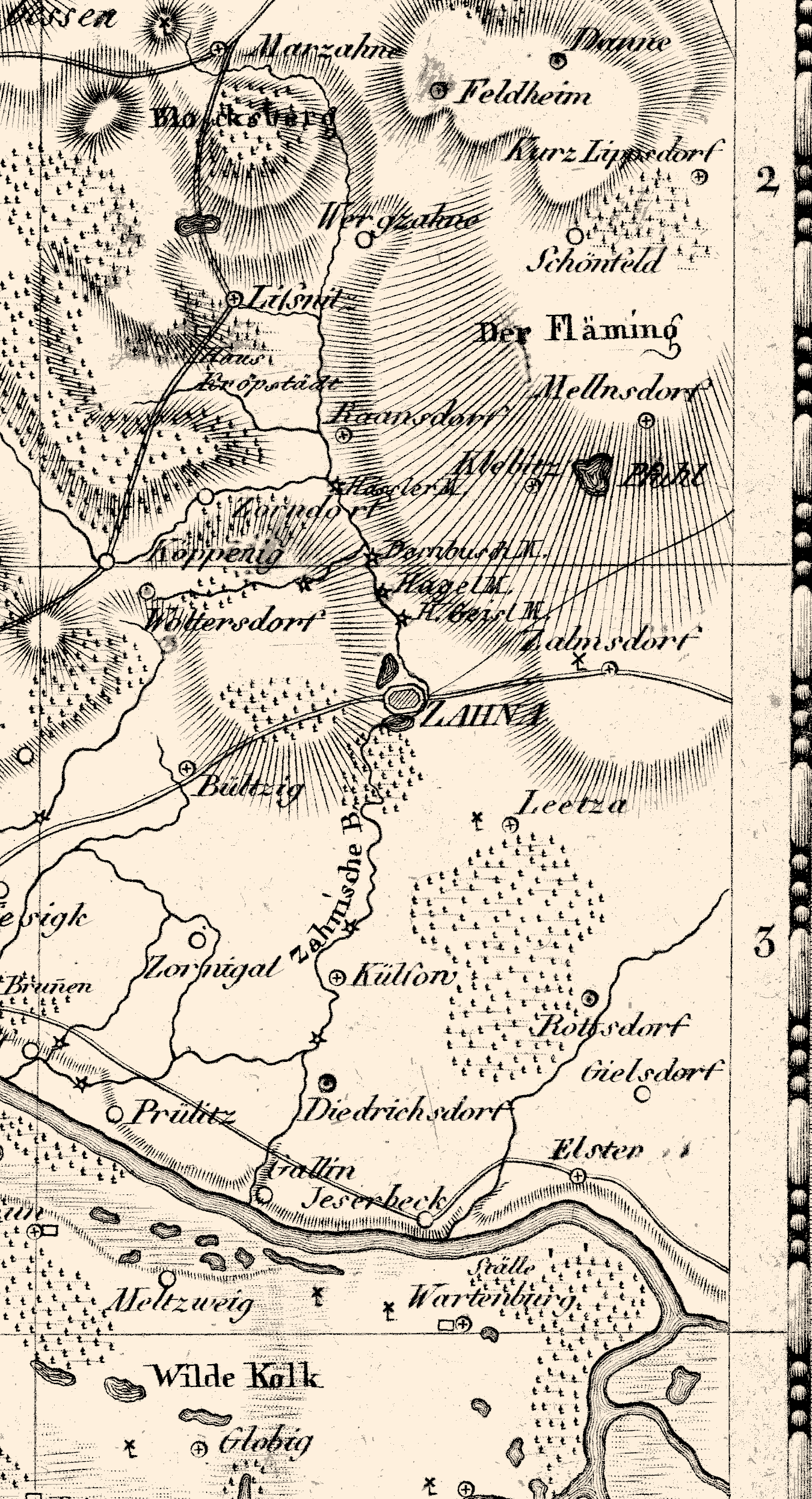 Heavily edited crop of a file available in Deutsche Fotothek.